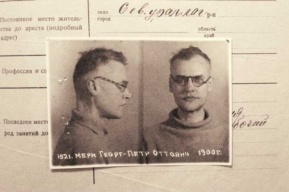 Photograph of the Estonian diplomat and translator Georg-Peeter Meri (1900–1983).